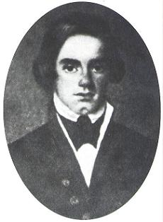 The young Lieutenant Thomas ap Catesby Jones, USN, commanded the American gunboats during the Battle of Lake Borgne. Photo obtained from New Orleans—1815 by Tim Pickles; Osprey Publishing (1993).